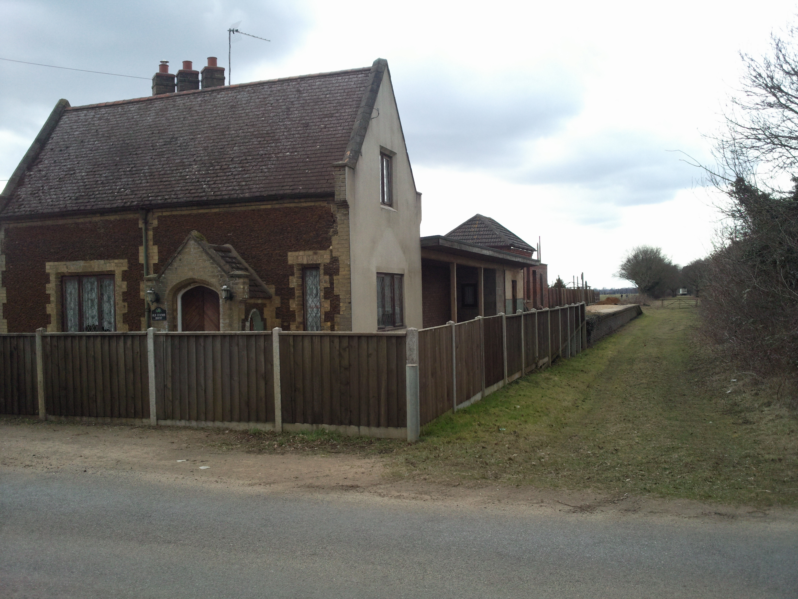 Dunham railway station, 2009